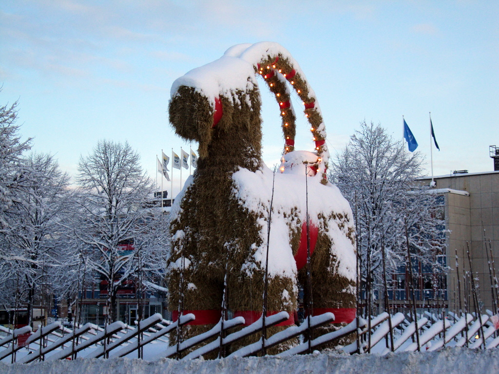 Picture of the huge straw Yule goat in Gefle Sweden. The picture was taken at noon december 21, 2009.